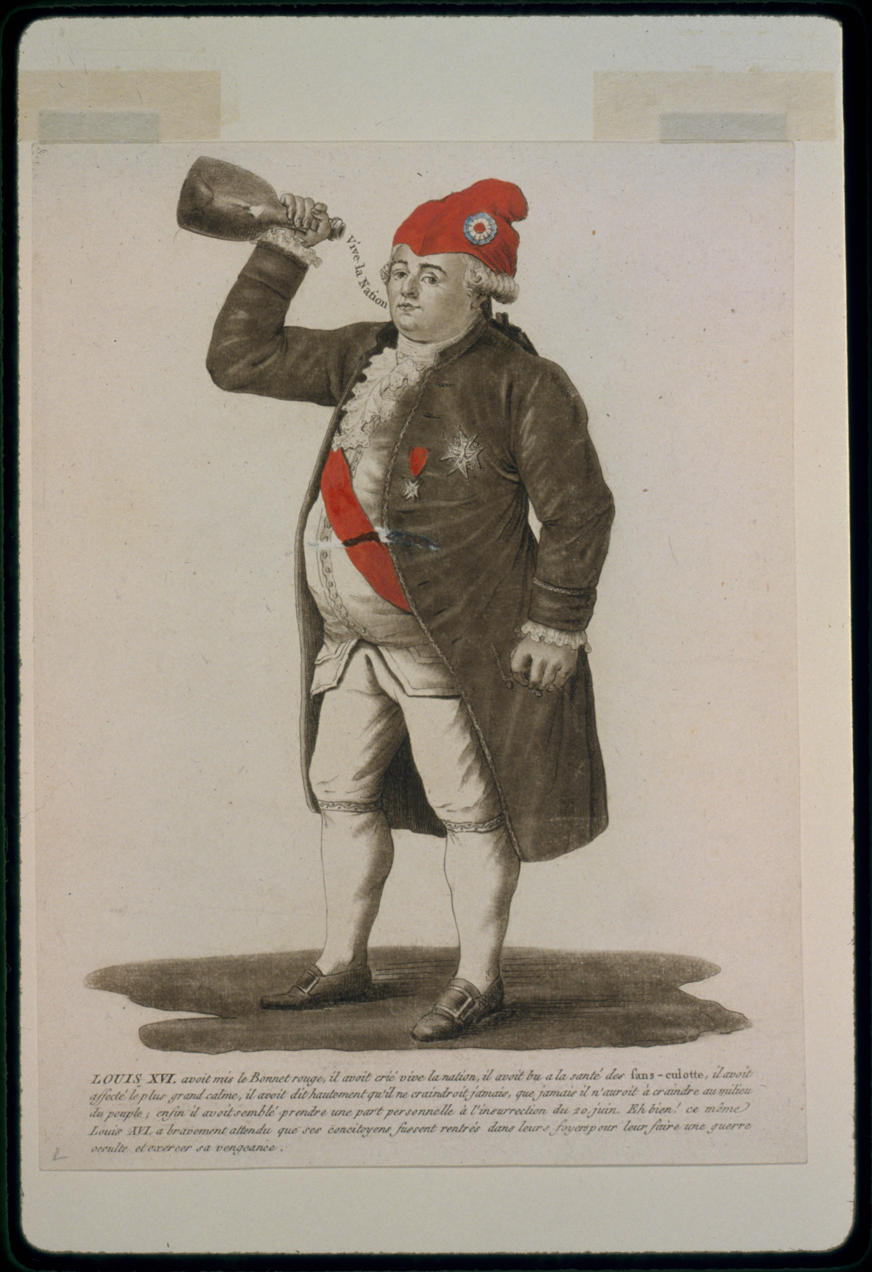 Louis XVI of France wearing a phrygian cap, drinking a toast to the health of the sans-culottes. Etching and mezzotint, with watercolor. Scanned from a photographic slide.